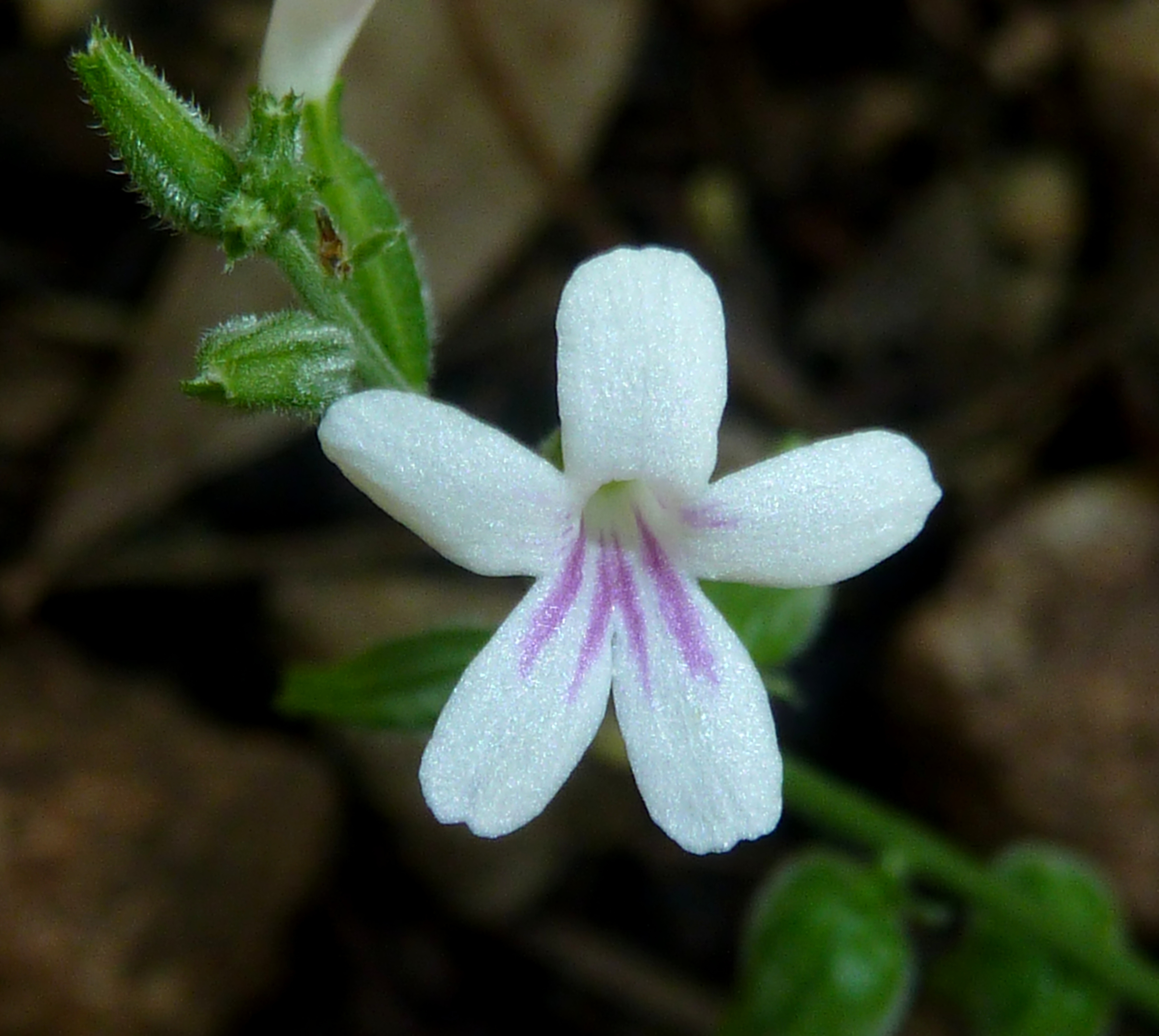 Priva cordifolia (L.f.) Druce var. abyssinica (Jaub. & Spach) Moldenke on southern slope of the Magaliesberg, near Skeerpoort, South Africa